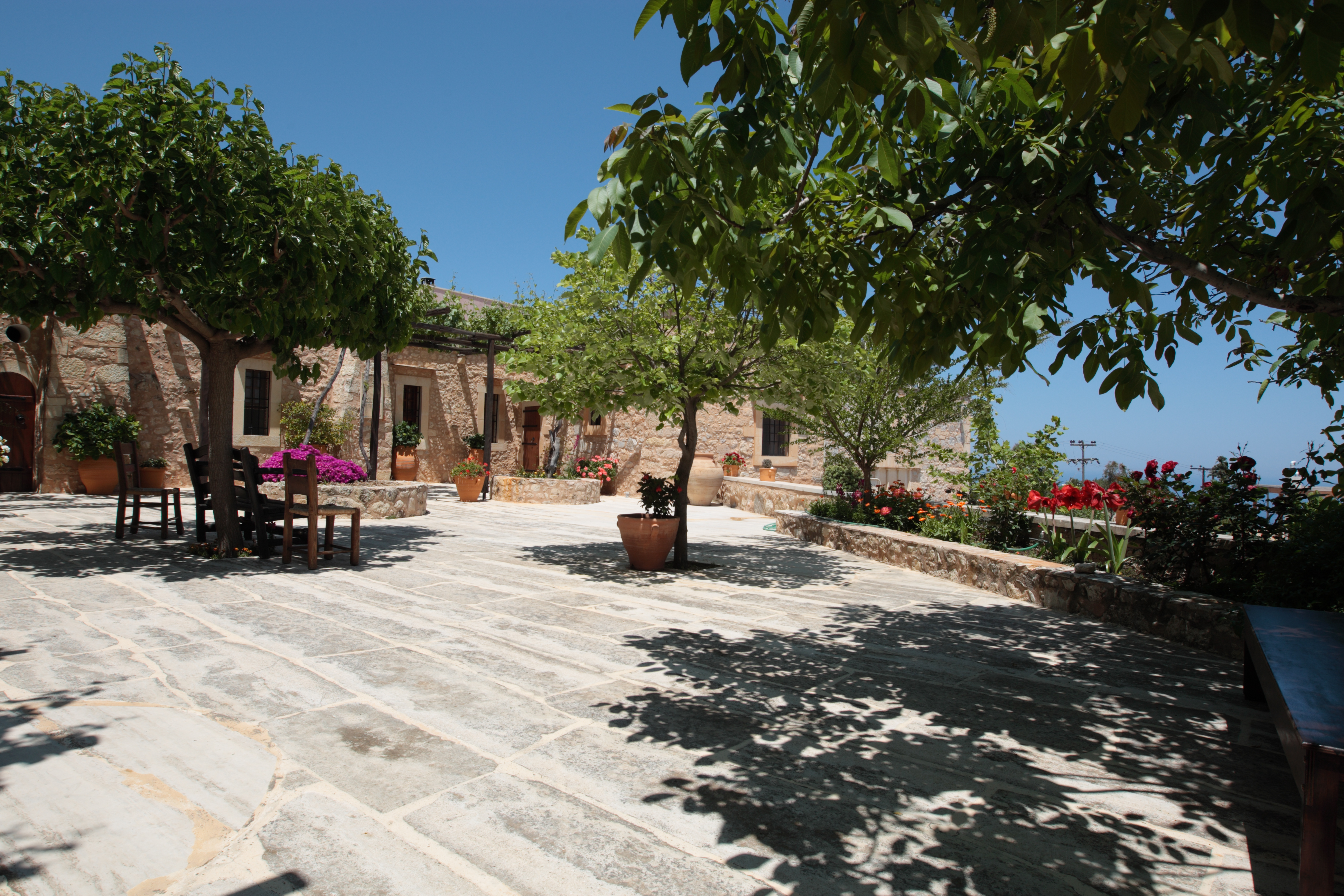 The Byzantine monastery of Agia Irini, Crete